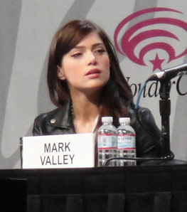 Janet Montgomery at WonderCon 2011